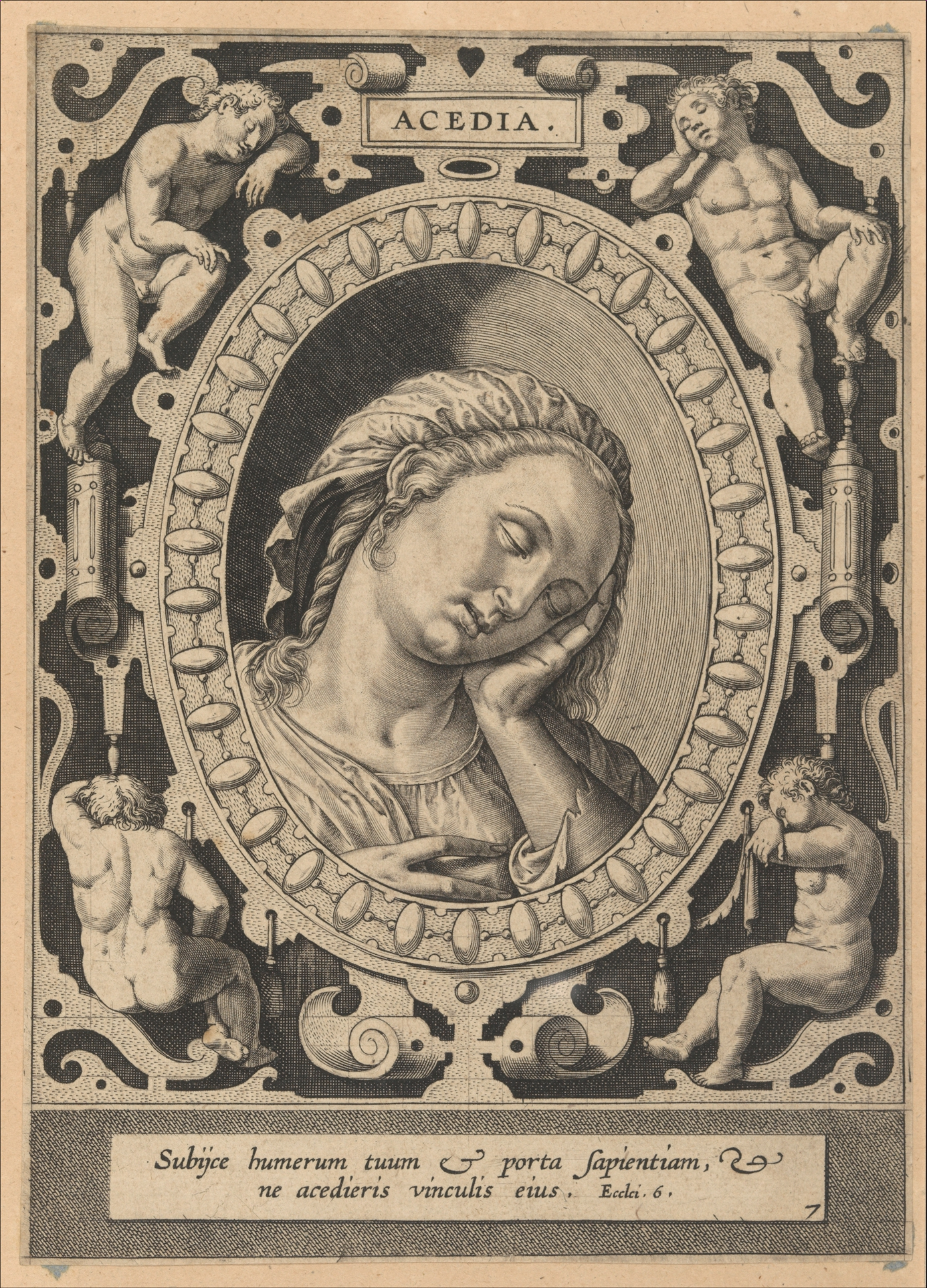 Print; Prints